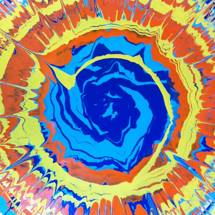 Spin art by J Goldstein. 20" square, acrylic on canvas.